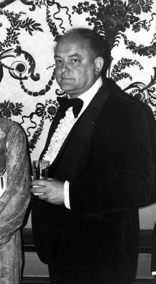 Photo of actor Gordon Jump.